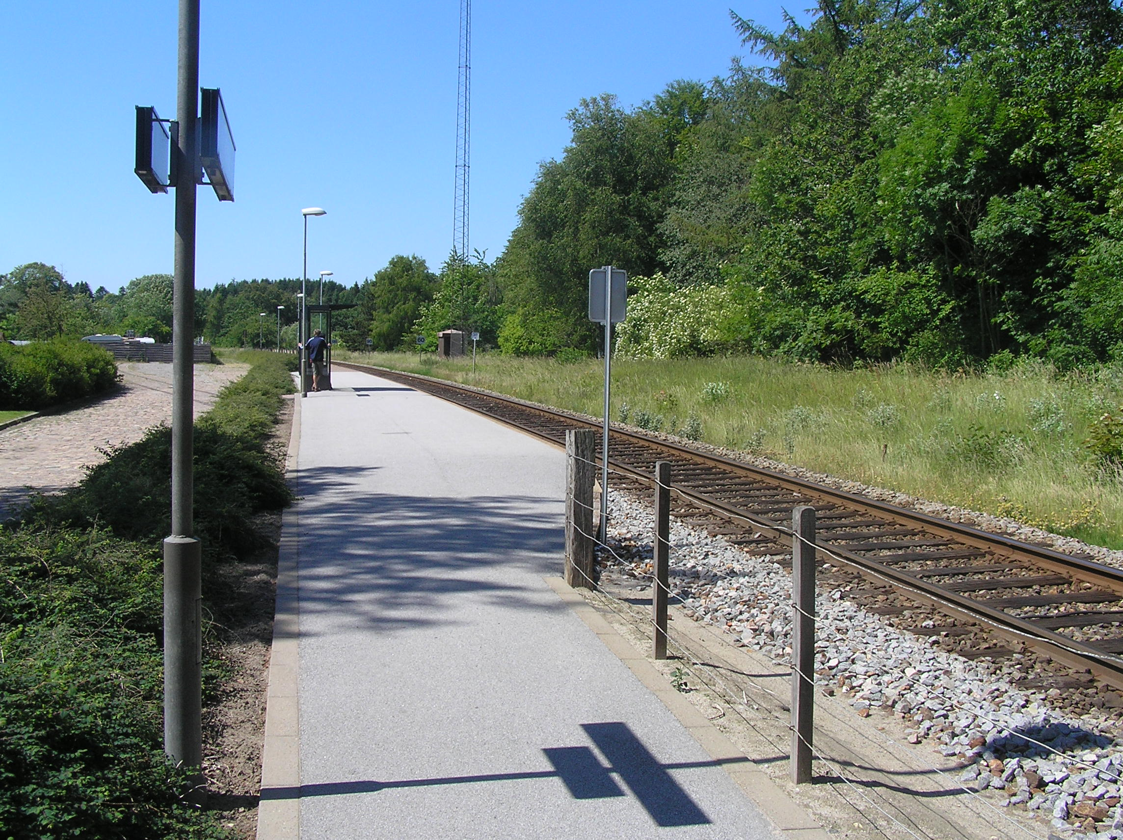 Tolne Station, Danish train station (west direction)